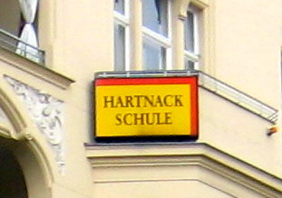 Hartnackschule Berlin